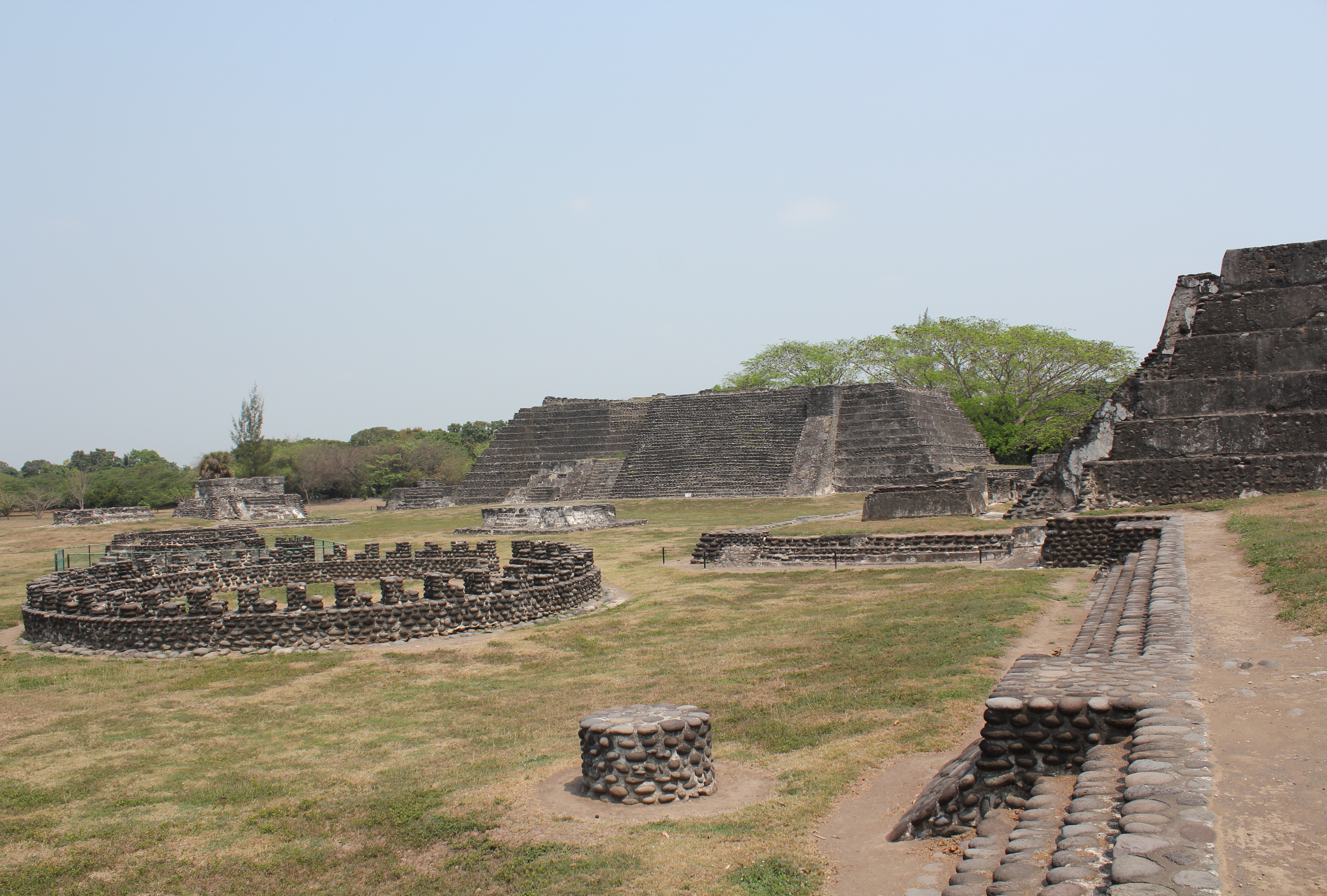 Cempoala, Circle of Gladiators, Great Temple, and Temple of the Chimneys Cempoala or Zempoala (Nahuatl for "Place of Twenty Waters") is an important Mesoamerican archaeological site located in the state of Veracruz, Mexico. The name perhaps originates from the fact that the city had a lot of aqueducts which provided the vital fluid to the numerous gardens and surrounding farmland fields and irrigation channels. According to some sources, the city was originally founded at least 1,500 years before the Spaniards arrival and there is evidence of Olmec influence. Although not much is known about the Preclassical and Classic Era, the Preclassical town was built on mounds to protect it from floods. Cempoala was the Totonac capital and was occupied by Totonacs, Chinantecas and Zapotec becoming the largest city in the Gulf. During its apogee, it had a population of between 25,000 and 30,000 people and was one of the most important Totonaca settlements during the post-classic period. (source